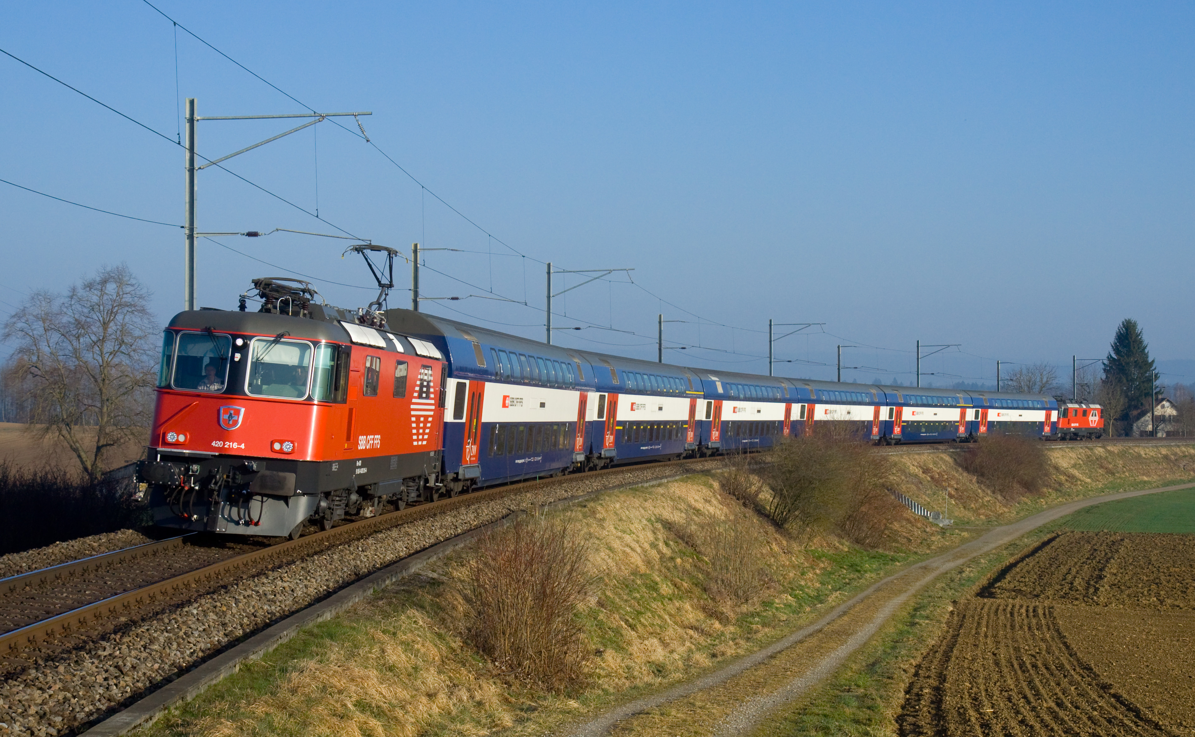 Two rebuilt SBB-CFF-FFS Re 420 engines with a HVZ-D ("rush hour double deck") train with an S11 service (Schaffhausen - Altstetten) just after passing Andelfingen, Switzerland.